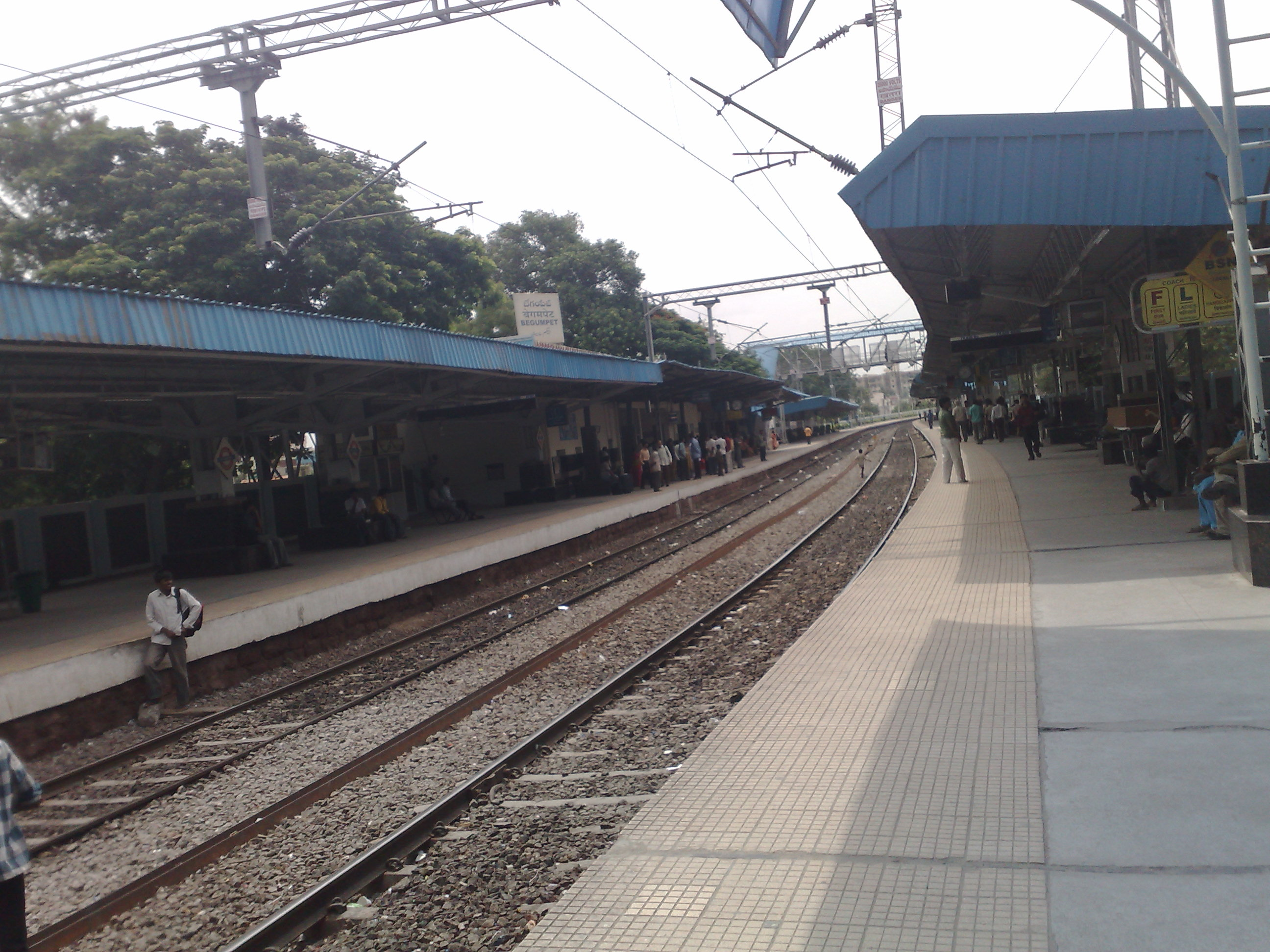 Begumpet Railway Station, Hyderabad